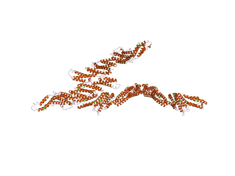 Cartoon representation of the molecular structure of protein registered with 2b7m code.